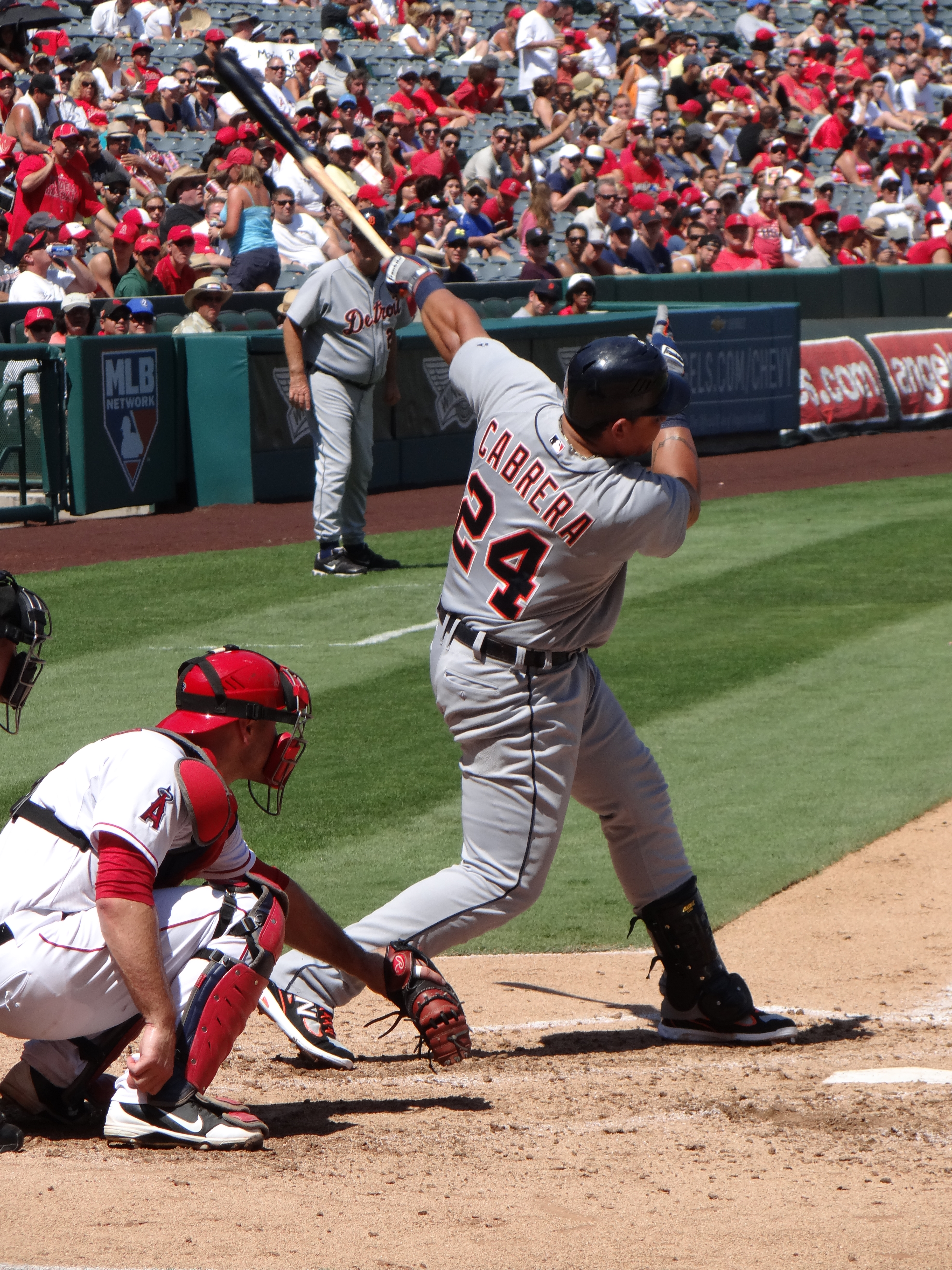 Miguel Cabrera batting against Angels (2012-09-09)